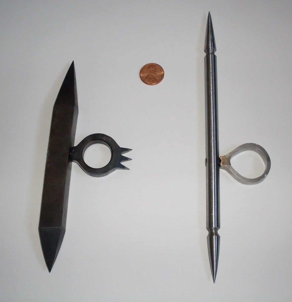 Two types of suntetsu that I have made. The one on the left is made of hardened 1045 and 1095 steels, and the one on the right is made of hardened 4150 steel and stainless(for the ring). Image is not copyright, so feel fre to use.